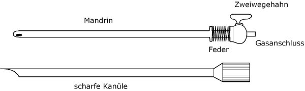 Verres Needle